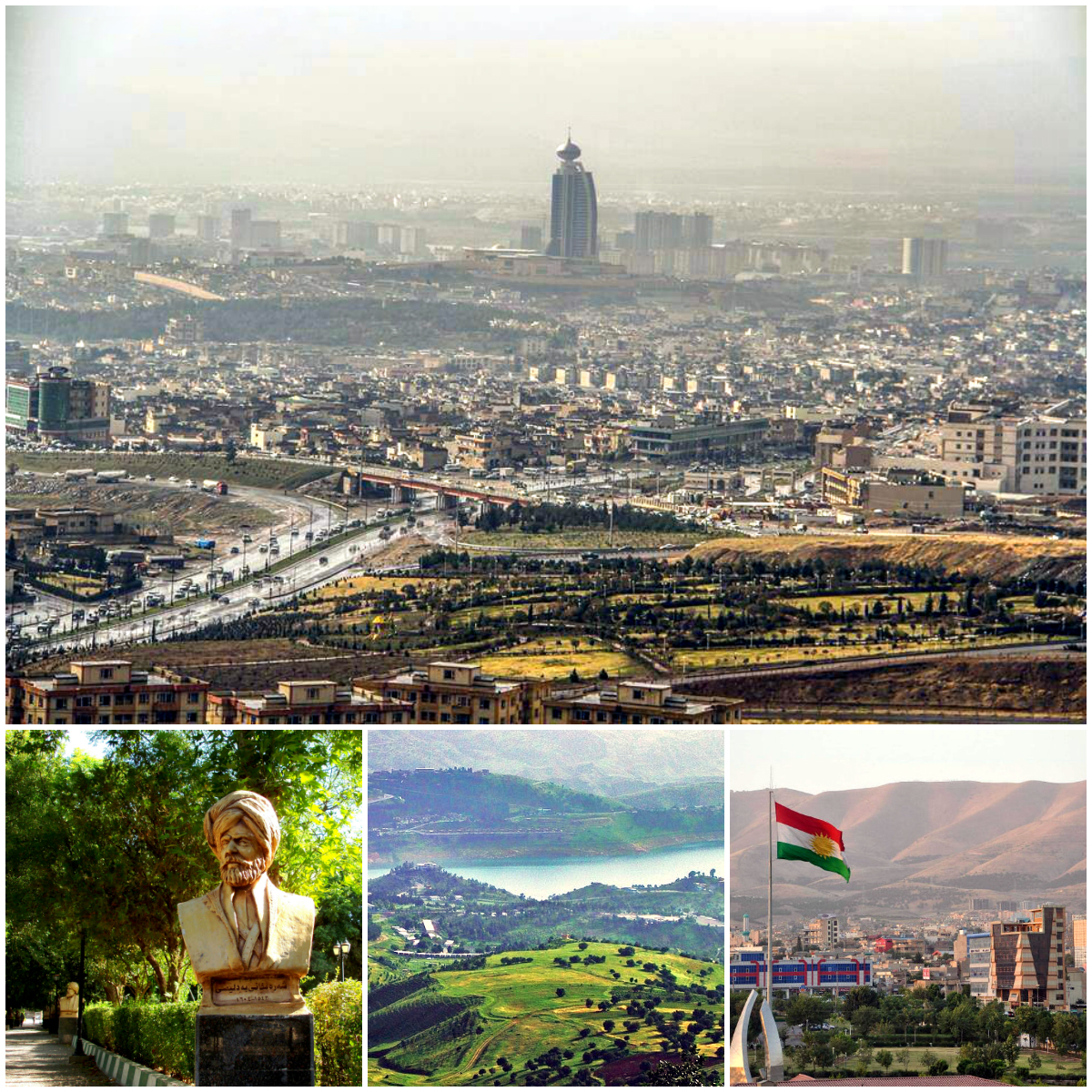 Montage of Sulaymaniyah (Kurdish: Slemani) Clockwise, from top: Sulaymaniyah with the Grand Millennium Hotel, Azadi Park with the Kurdistan flag, Lake Dukan and statue of Sharaf Khan BidlisiKurdî: Bajere Slemani